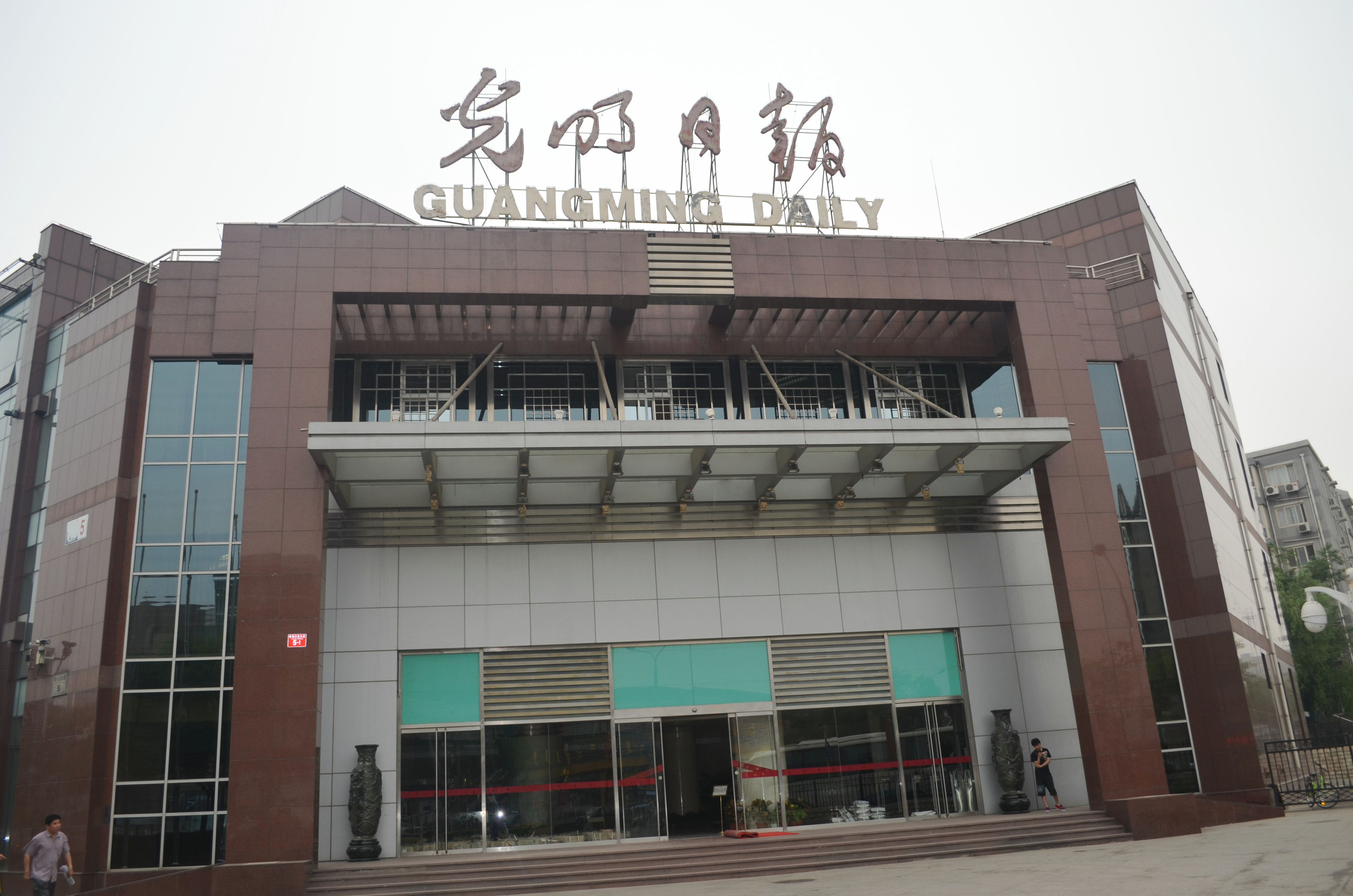 China Guangming Daily